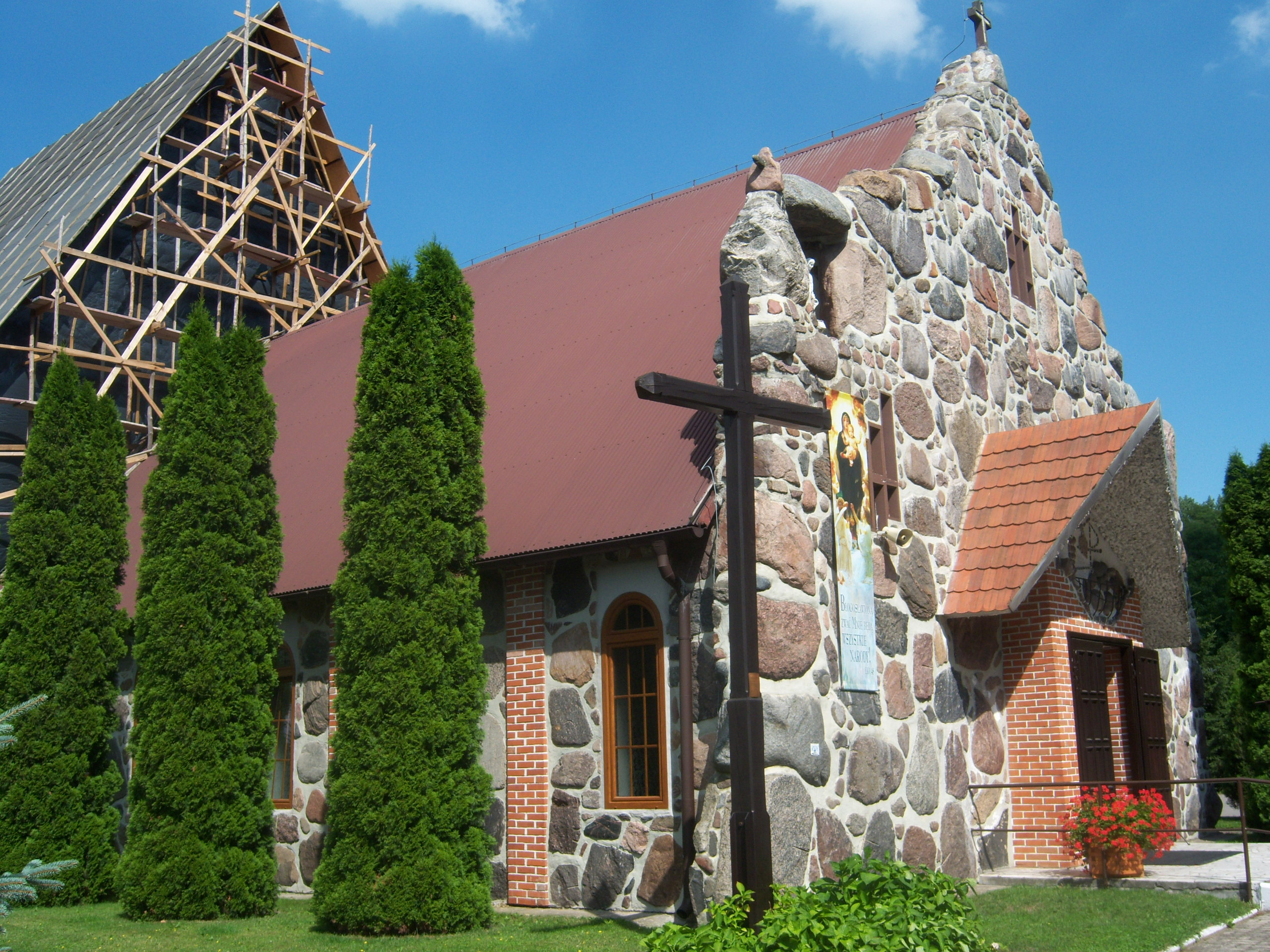 St. Albert Chmielowski's Church in Posada - right front side, in backgroud expansion work